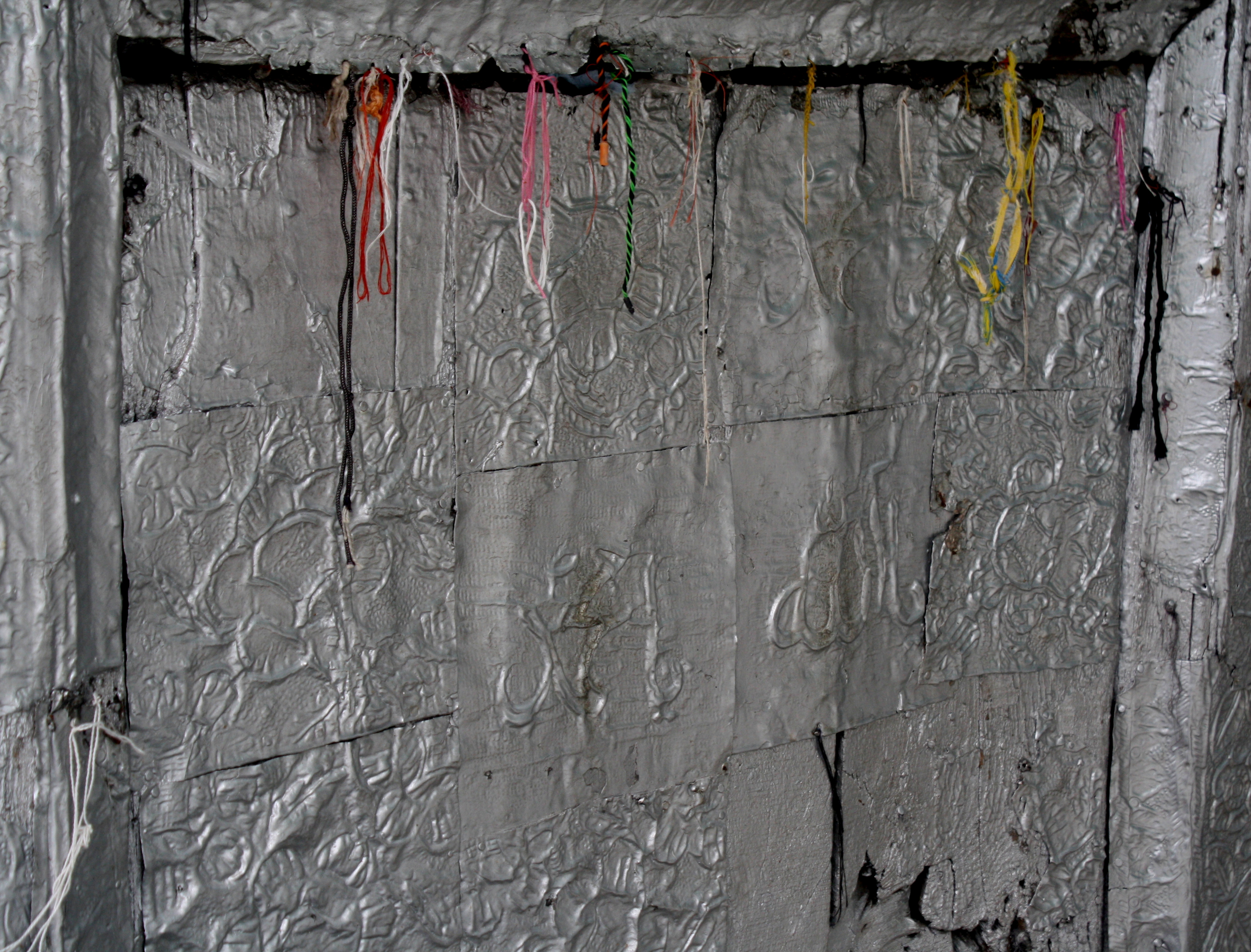 The enclosure and Grave of Mian Natha and his goat in the General Graveyard of Mian Mir This is a photo of a monument in Pakistan identified as the PB-P-144